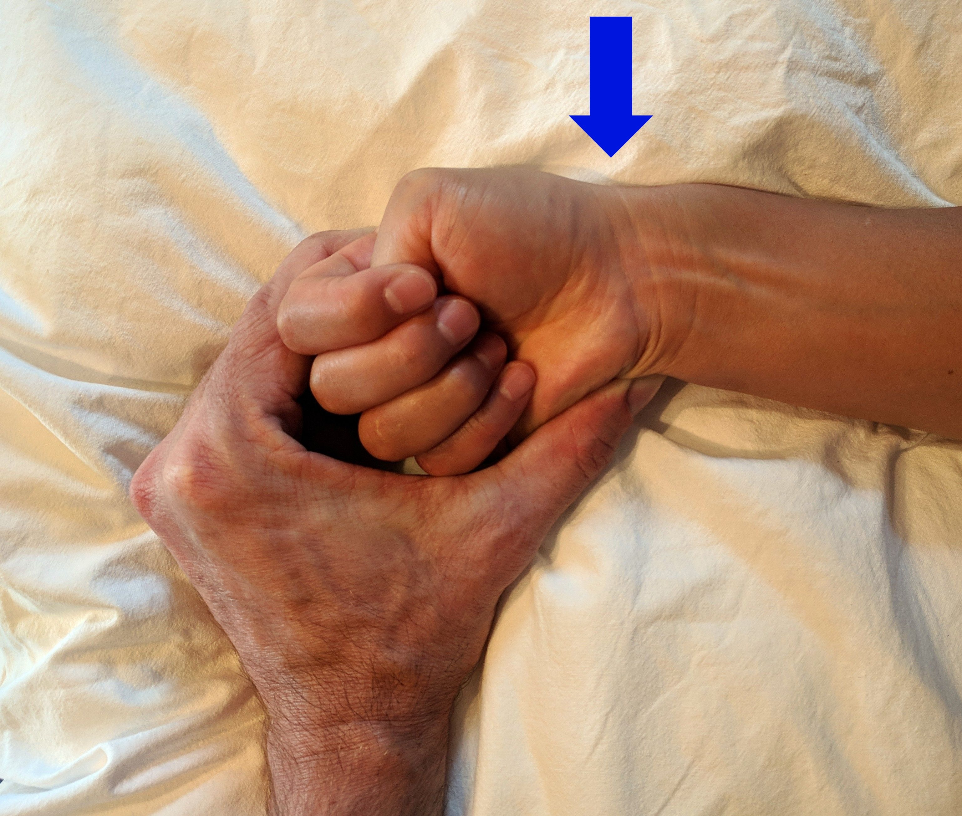 The modified Eichoff maneuver, commonly called the Finkelstein's test. Arrow marks were the pain is worsened in DeQuervain syndrome.[1][2]